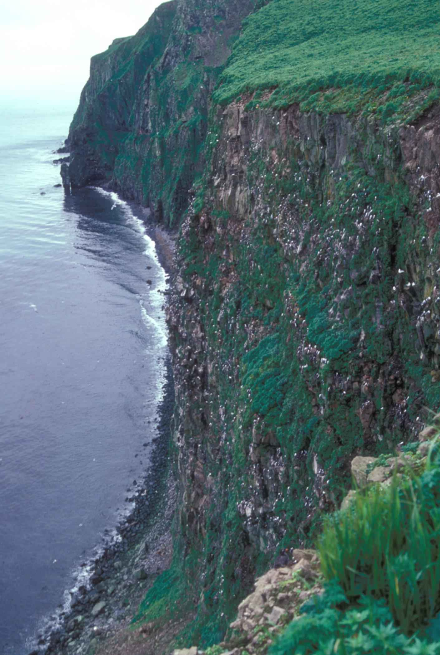 Saint George Island (Pribilof Is.)